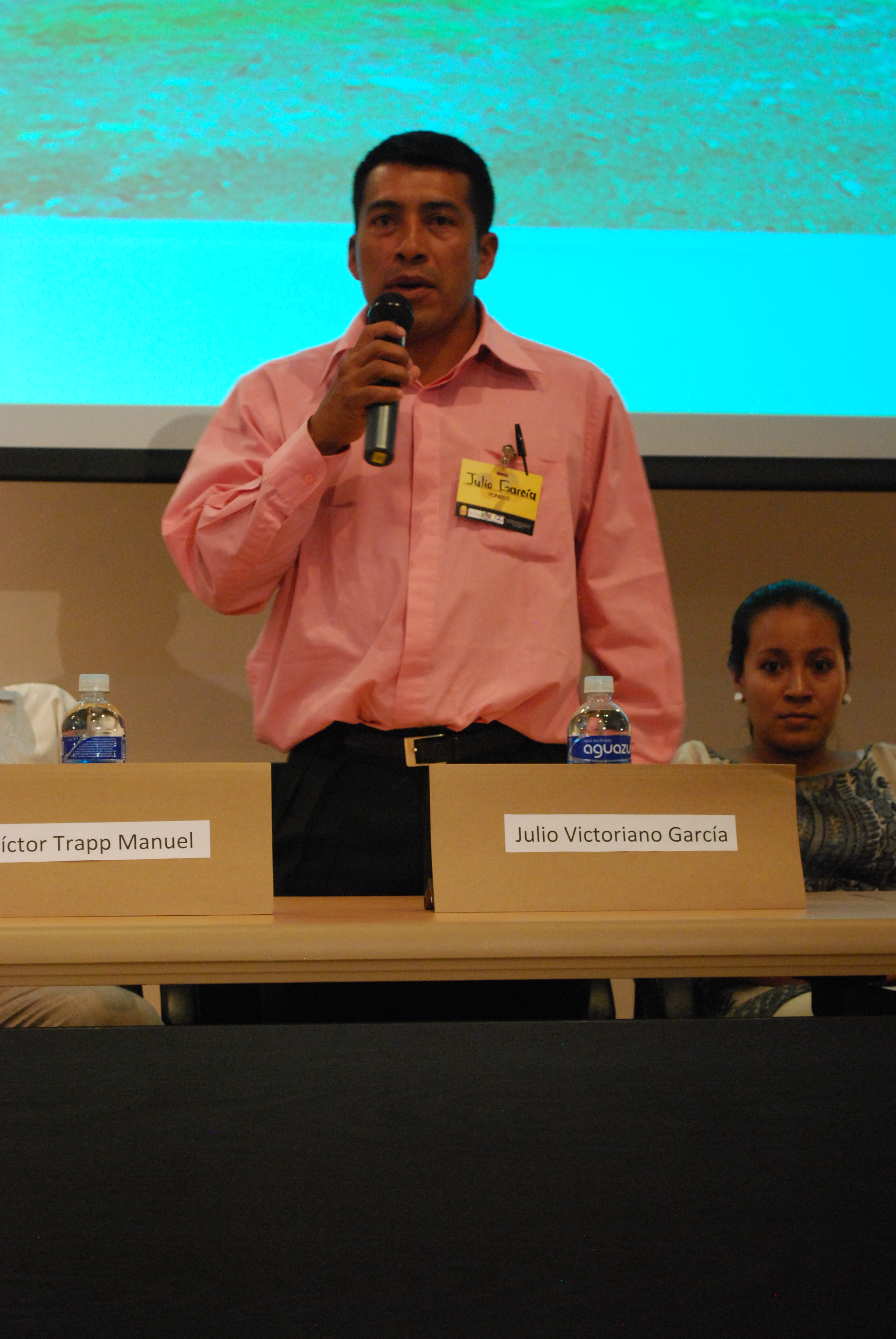 Julio Victoriano Garcia representing the Lenca people at a forum of ACALing held at the Universidad Nacional Autónoma de Honduras